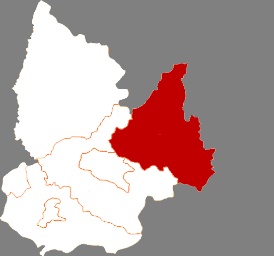 Location of Xifeng county city in Tieling City, China